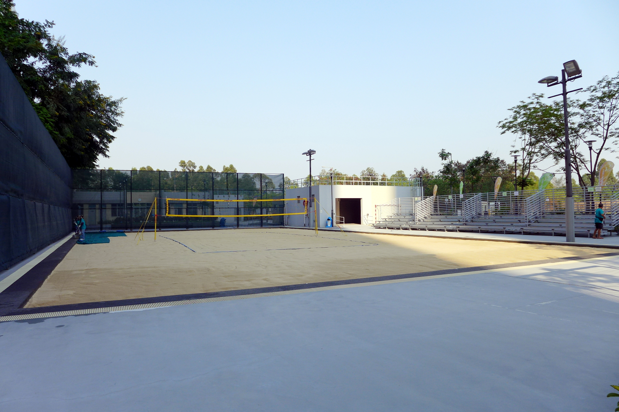 Tin Yip Road Park Artificial Sand Court